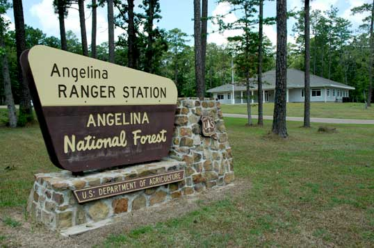 Angelina National Forest sign — in the Piney Woods region of eastern Texas.